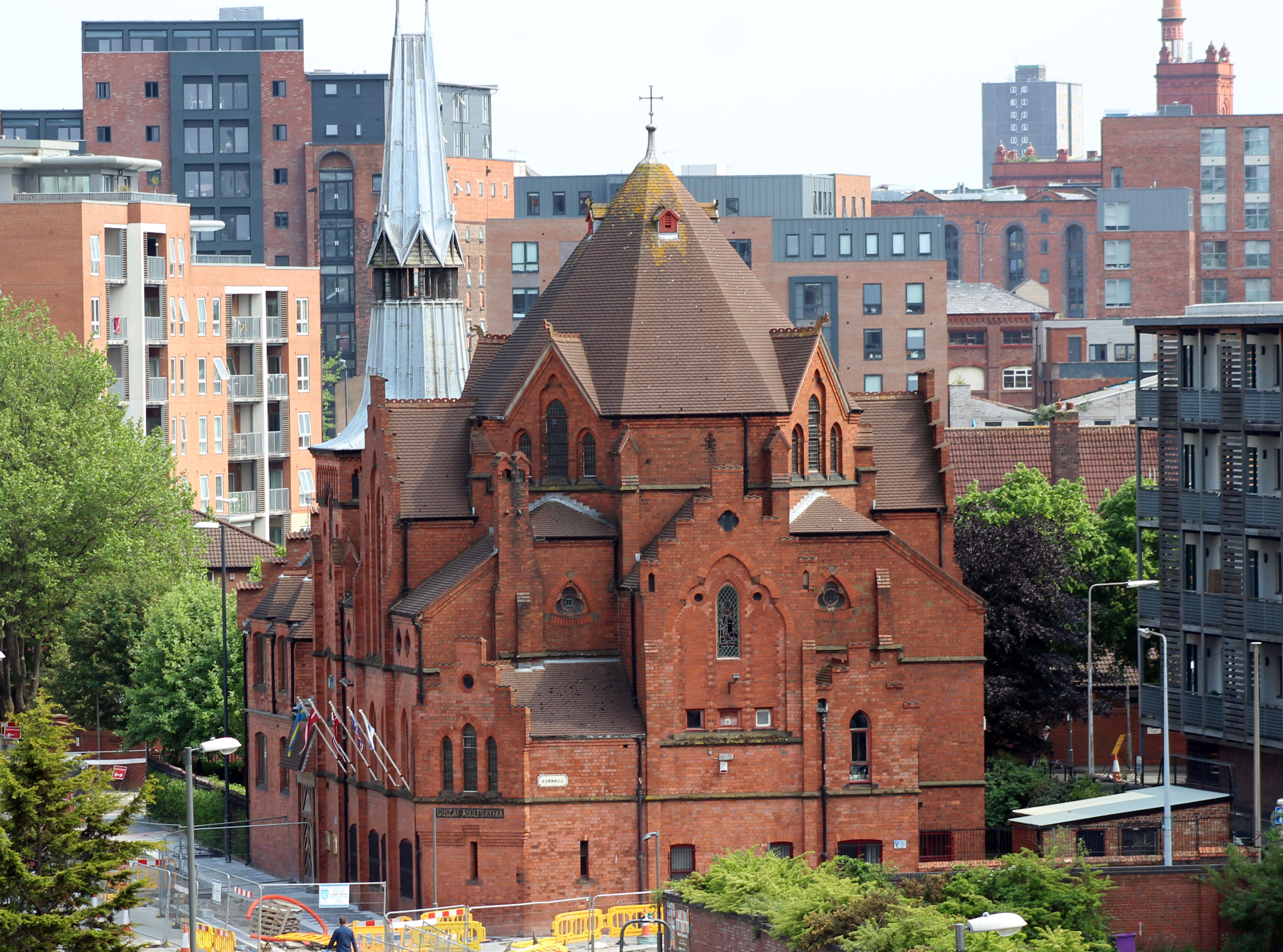 View southwest from John Lewis car park. Grade II* listed Swedish church in Baltic Triangle, Liverpool.